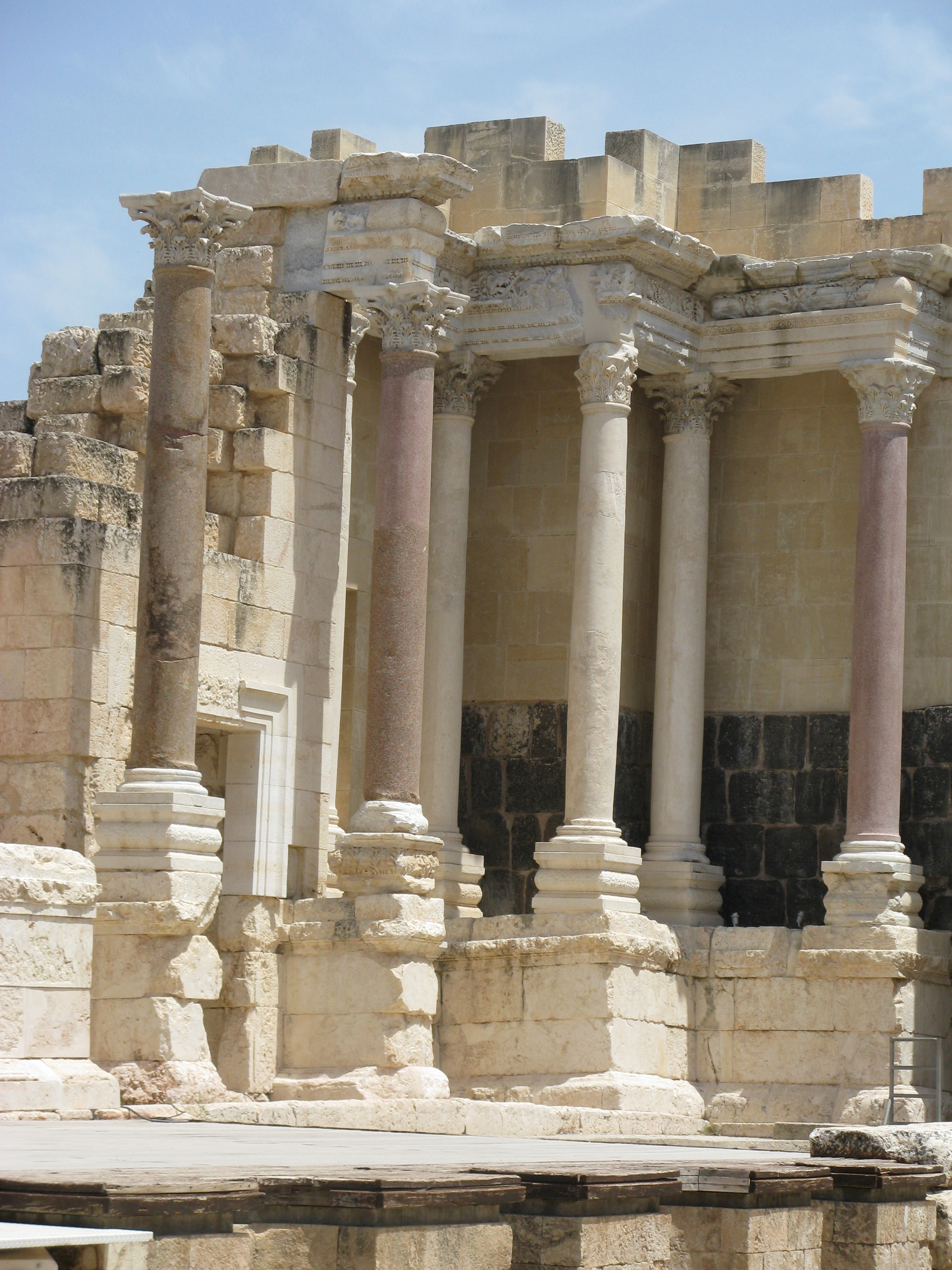 The ancient Scythopolis - the Theatre